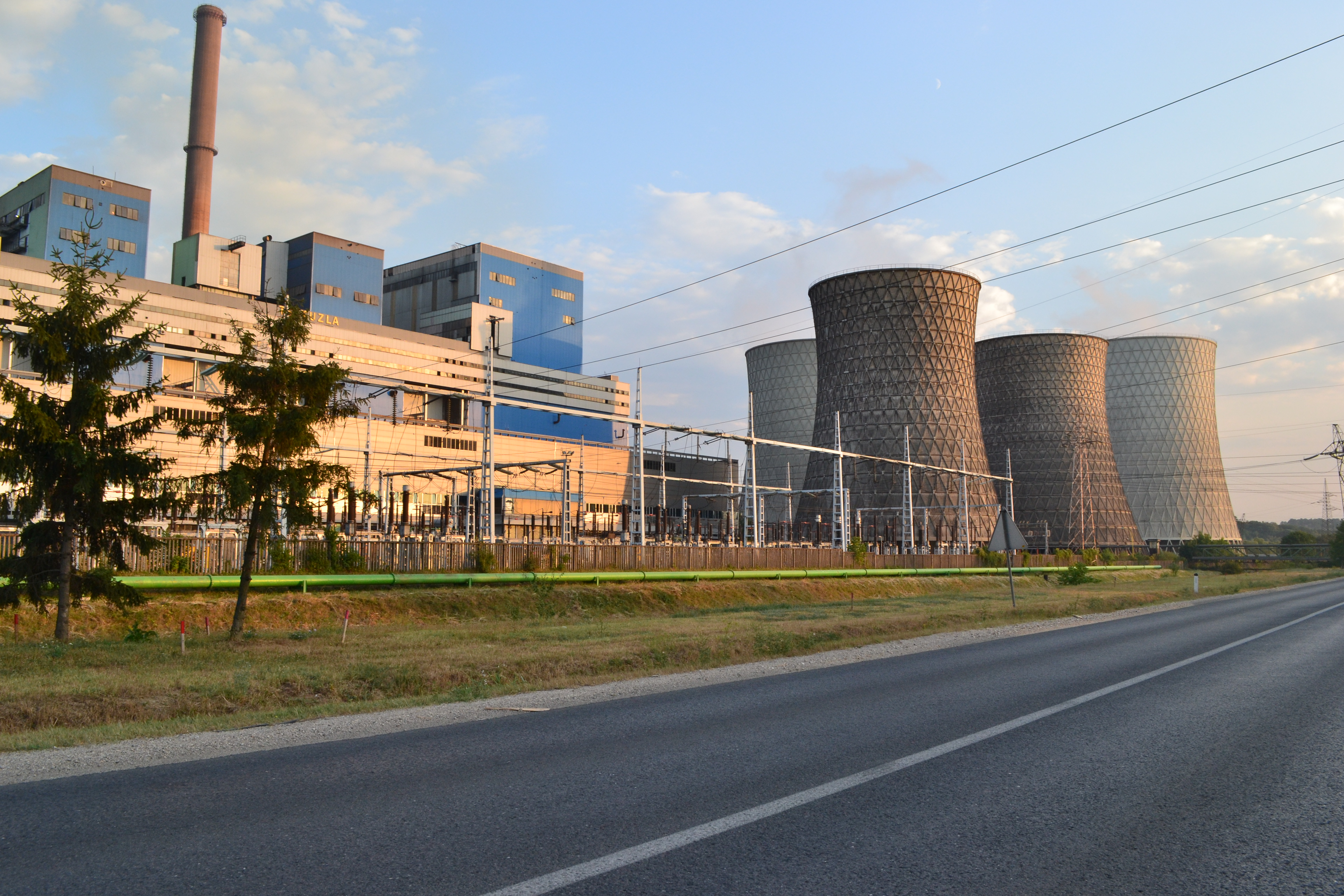 Power station in Tuzla